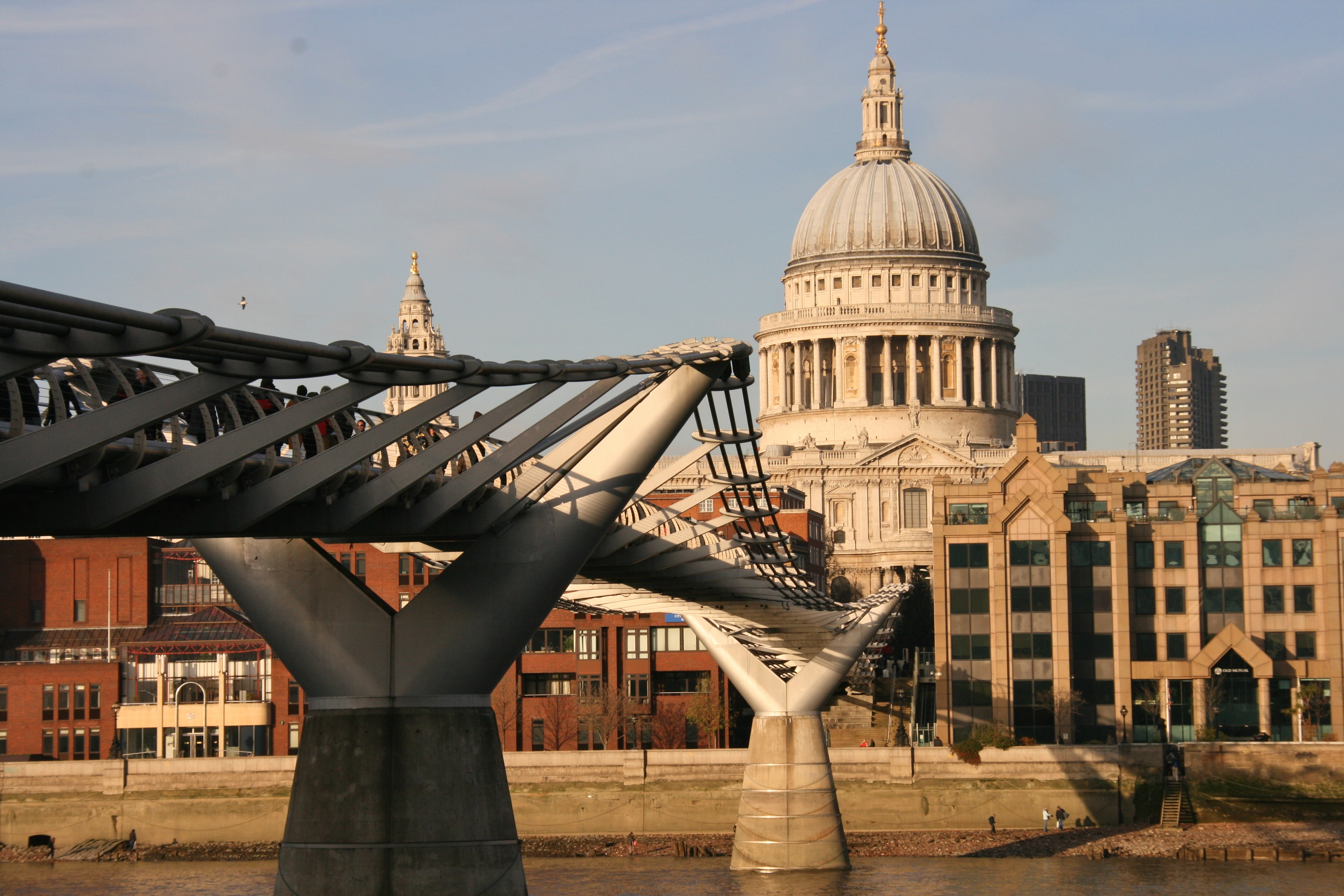 Millennium Bridge and St Paul's, London